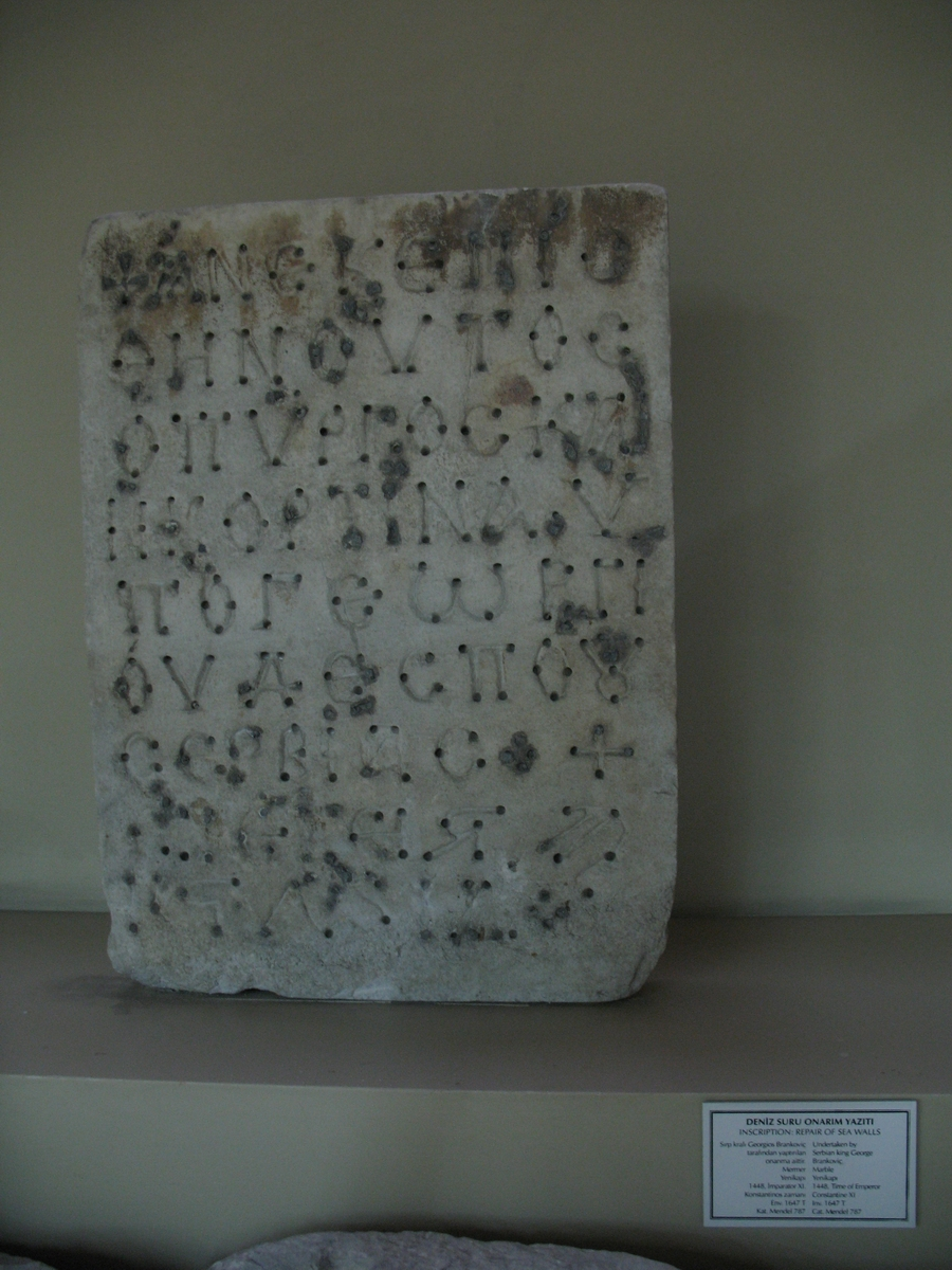 Marble plate of Đurađ Branković about reconstruction of the Walls of Constantinople in 1448,during the reign of Constantine XI, today in Istanbul Archaeological Museum.